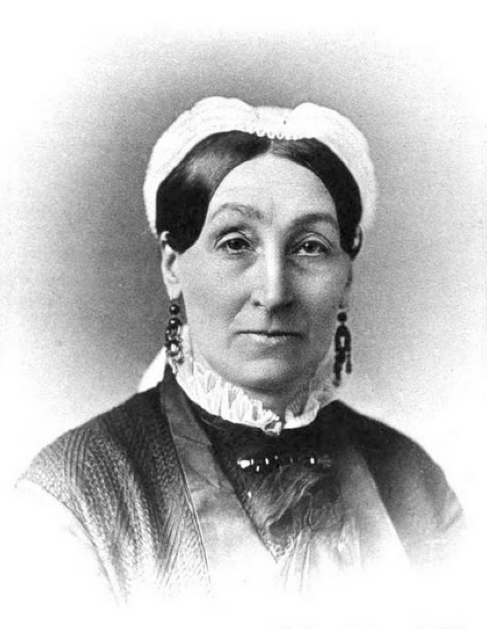 Photograph of Fanny Vining Davenport, known as Mrs. E. L. Davenport (1829–1891)